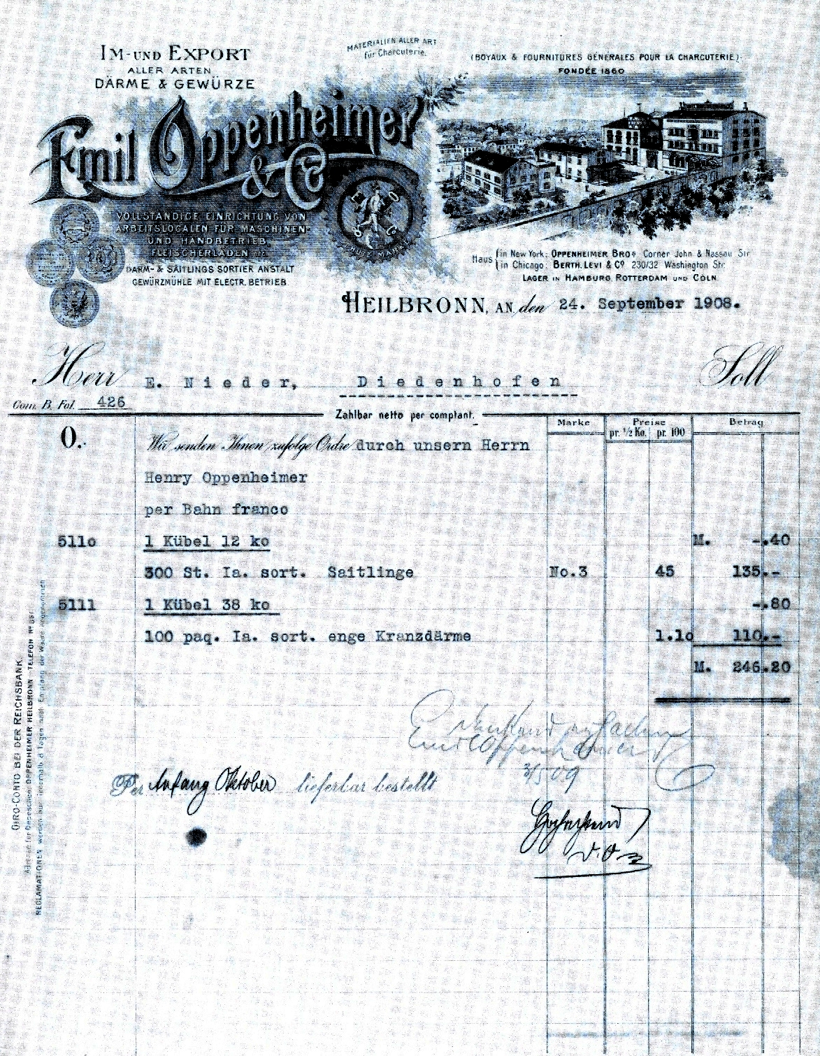 Firma Emil Oppenheimer & Co. in Heilbronn Rechnung ausgestellt am 24. September 1908.JPG